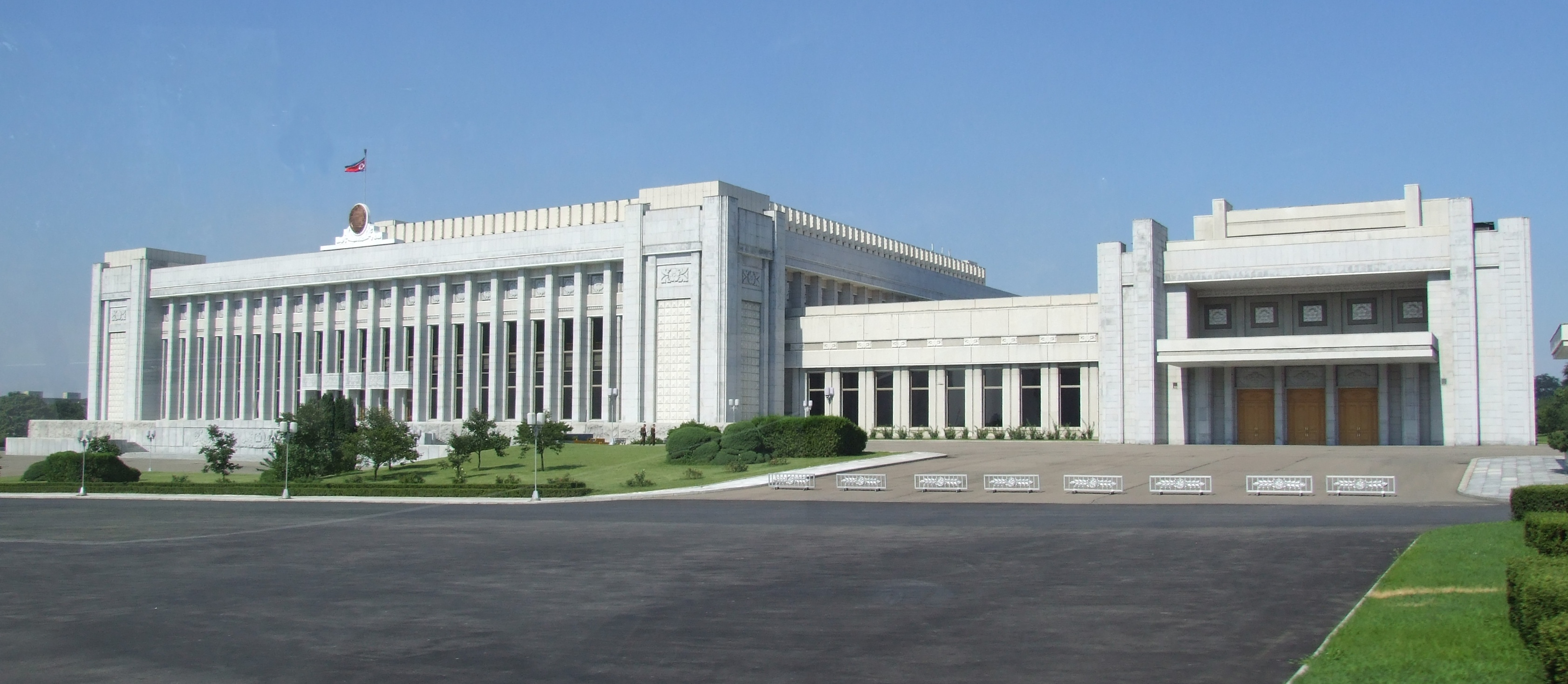 Mansudae Assembly Hall in Pyongyang, Parliament of North Korea